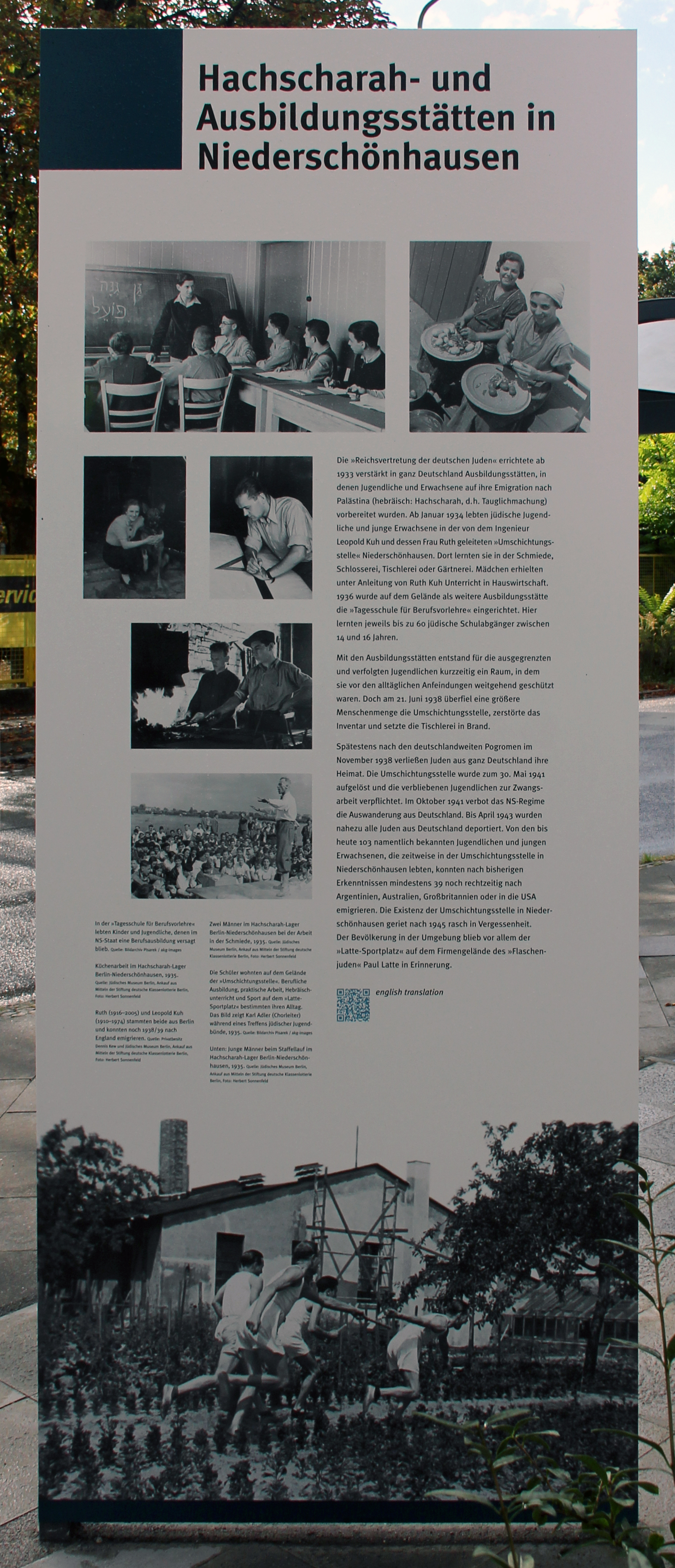 Memorial plaque, Hachscharah, Selma-und-Paul-Latte-Platz, Berlin-Niederschönhausen, Deutschland